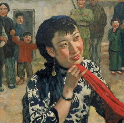 Put Down Your Whip, 1939 oil painting by Xu Beihong, portraying actress Wang Ying's performance of the eponymous play.